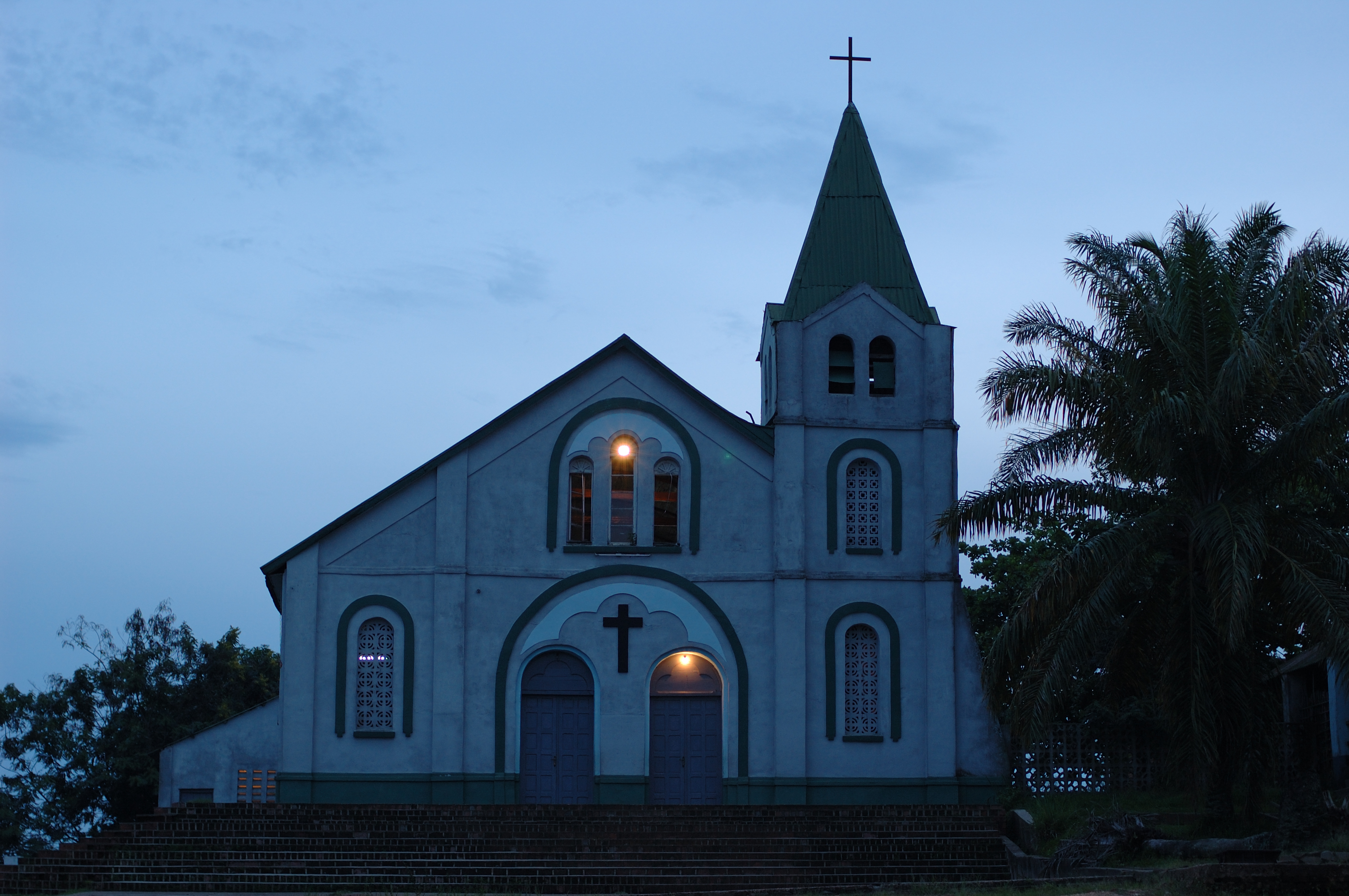 Church in Kindu, the provincial capital of Maniema. Cathedral of Kindu (cfr. Flickr)